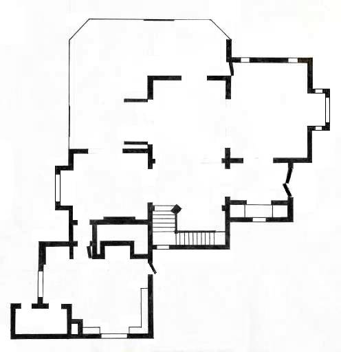 Plan of Halliwell Manor as the fictional house in the TV series Charmed, showing the layout of the rooms in relation to each other.